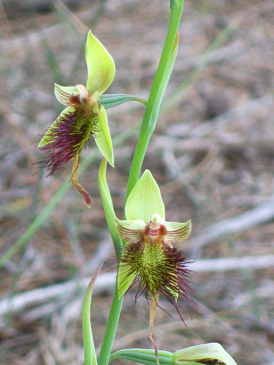 Calochilus paludosus, Red Beard Orchid. Not far from the start of Elvina Track, Ku-ring-gai Chase National Park, Australia